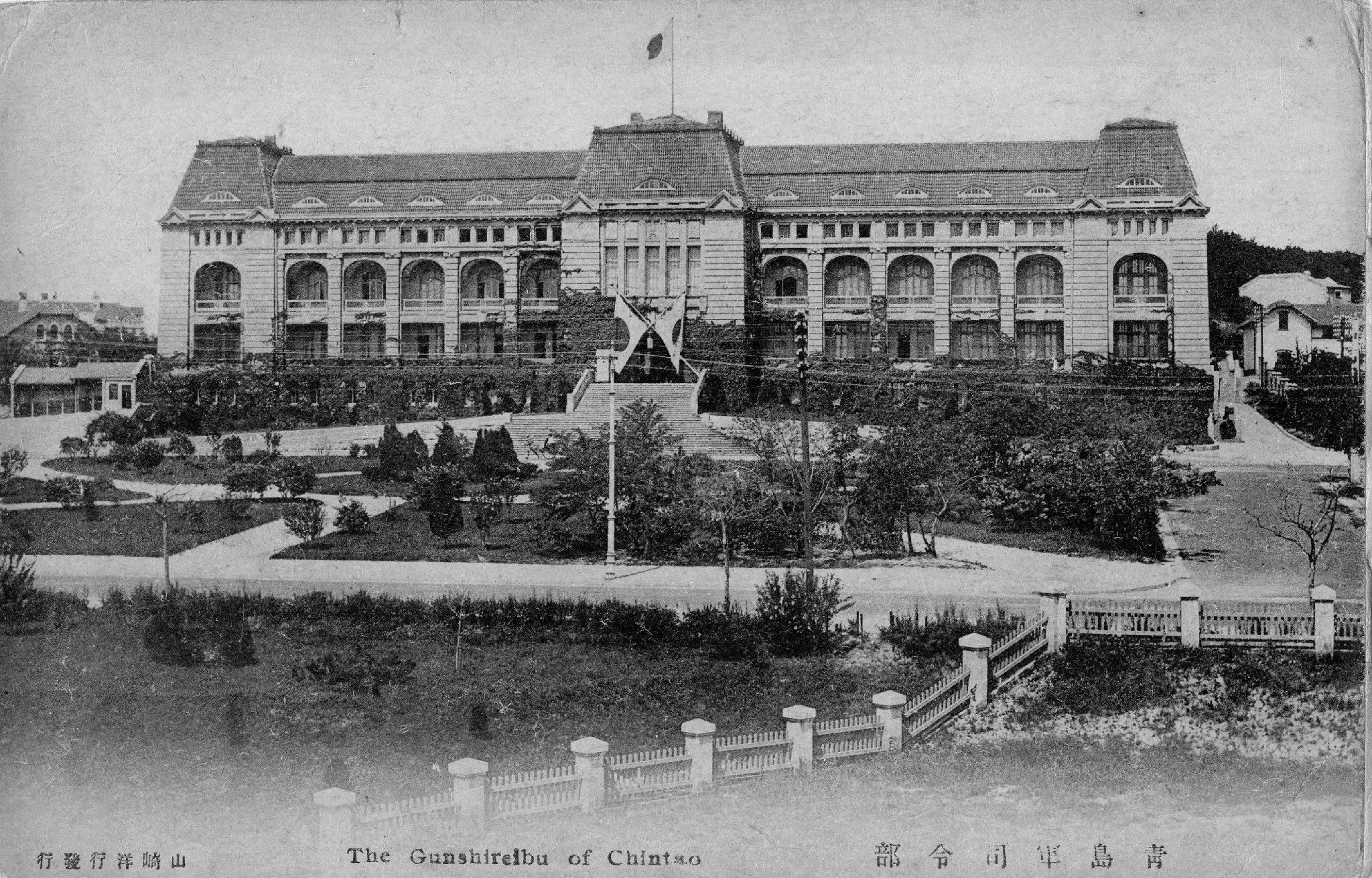 The Gunshireibu of Chintao (Former German Governor Office Building in Tsingtao)